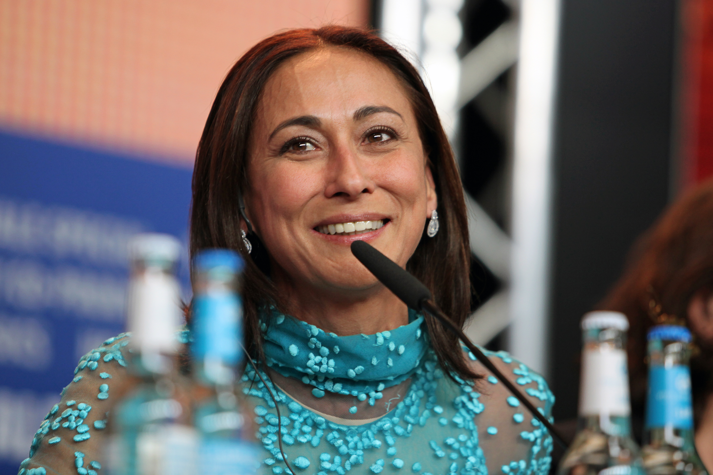 Filipono actress Evangeline Cheryl Rose Eigenmann y Gil at the Berlinale 2016.